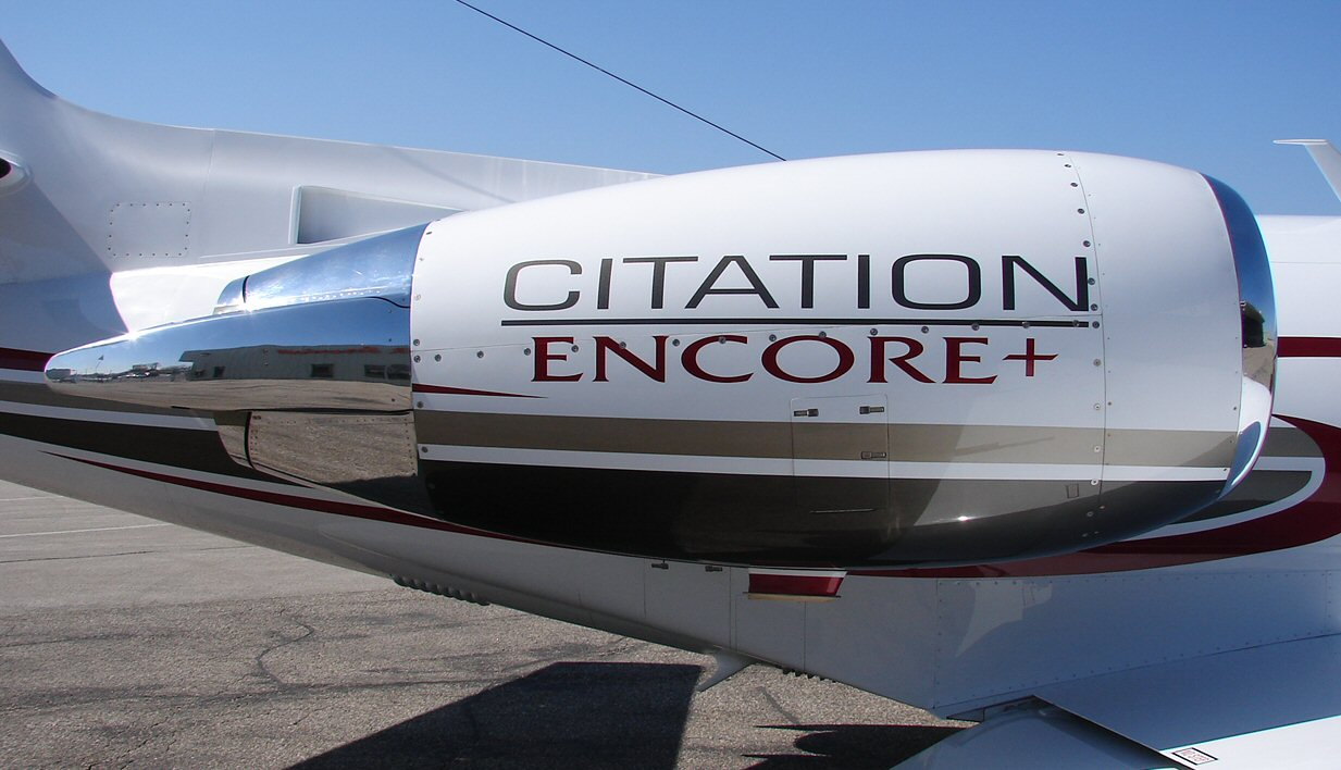 Ladies and Gentlemen the Cessna Citation Encore +